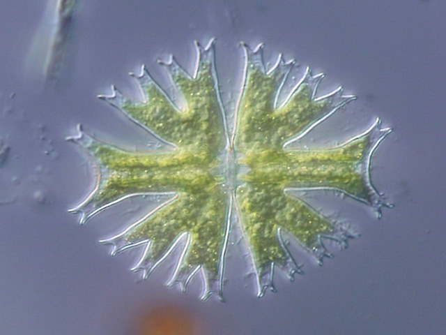 Micrasterias radiata / from Shishitsuka-Pond, Tsuchiura, Ibaraki Pref., Japan / Microscope: Leica DMRD (DIC)